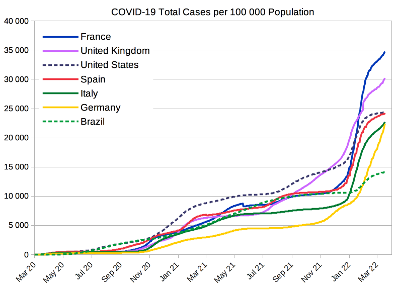 The top countries with new covid infections are US Spain Italy Canada Germany United Kingdom Turkey This chart shows the total cases in relation to the size of the population